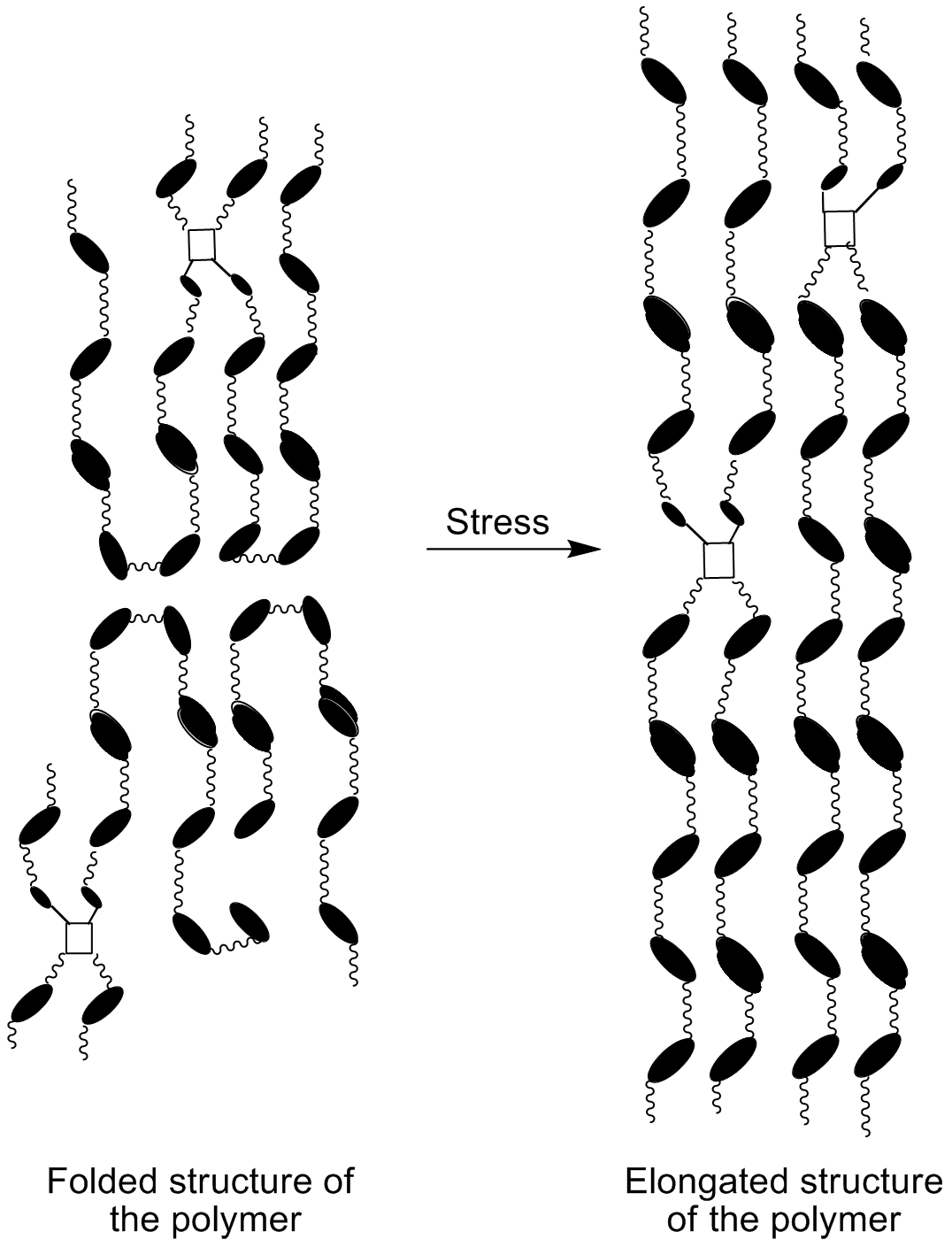 Created in Chemdraw from Macromolecules, Vol.41, No. 7,2008 2671-1676